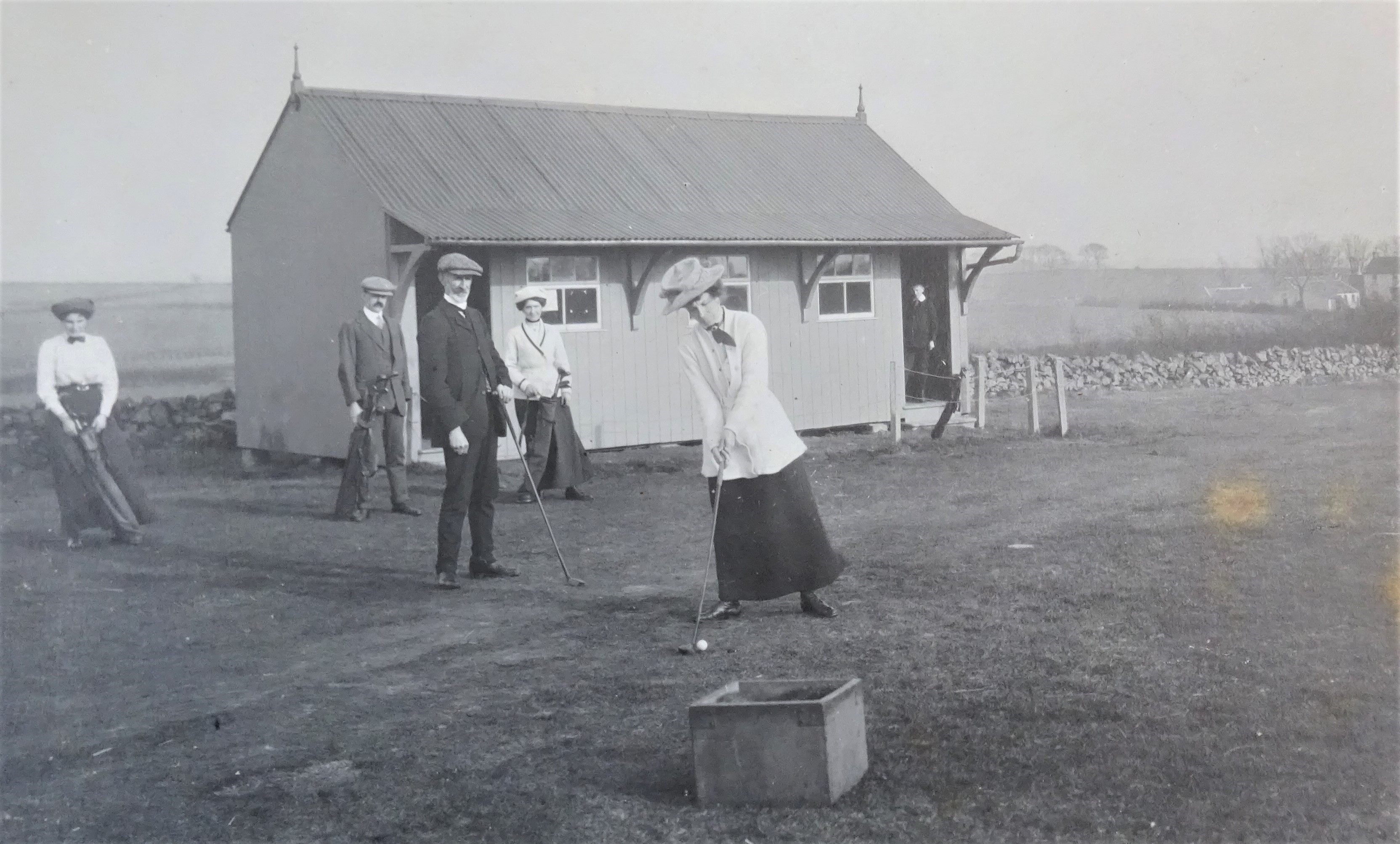 Dunlop Golf Club pavilion, Templehouse, East Ayrshire. Opened in 1909 and closed in 1922.